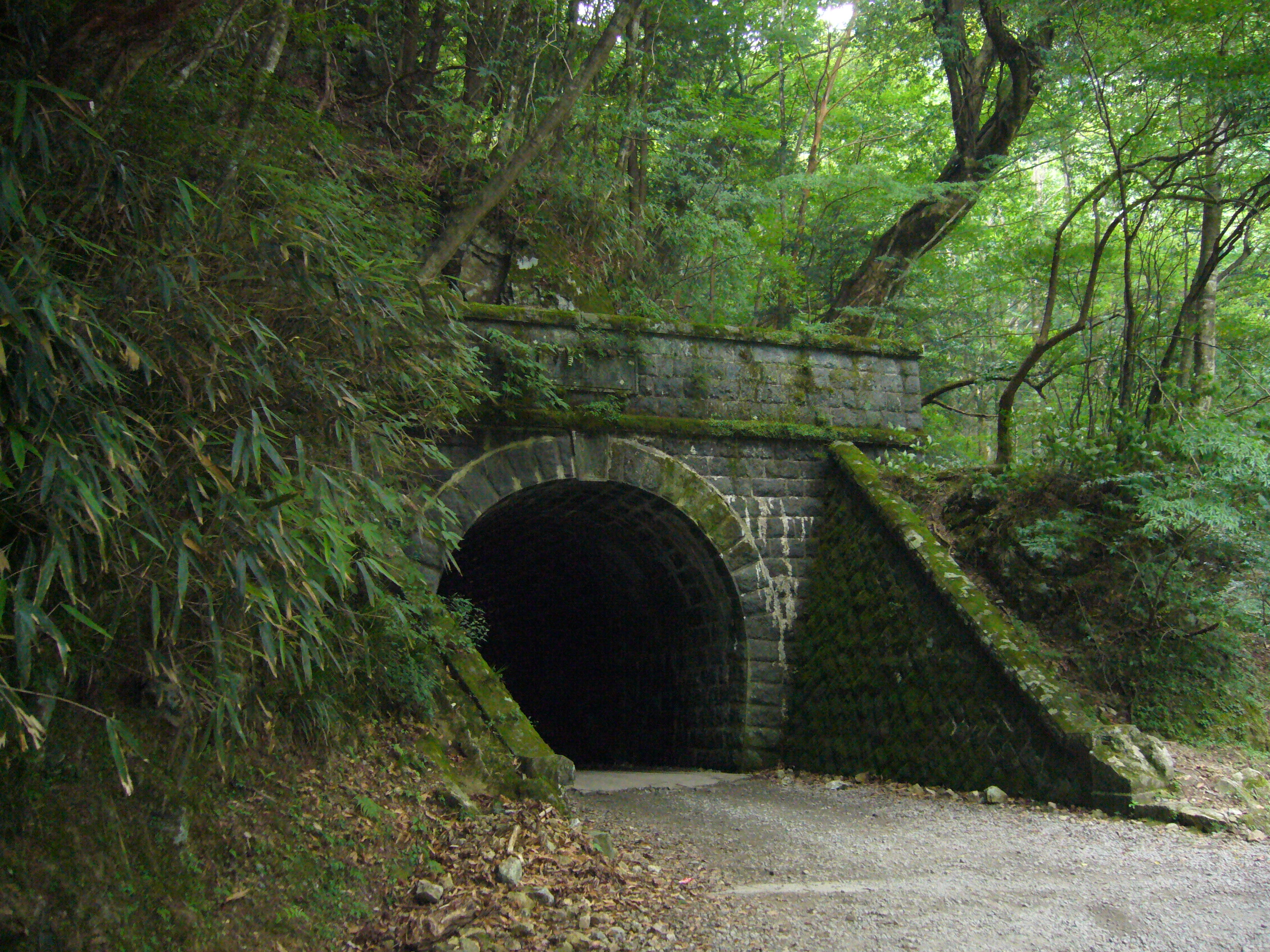 Old Amagi Tunnel which is famous for The Dancing Girl of Izu by Yasunari Kawabata. This tunnel locate central Izu Peninsula in Shizuoka, Japan